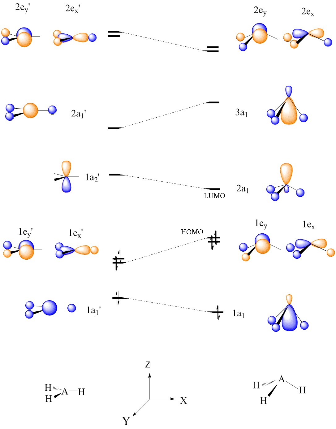 asd